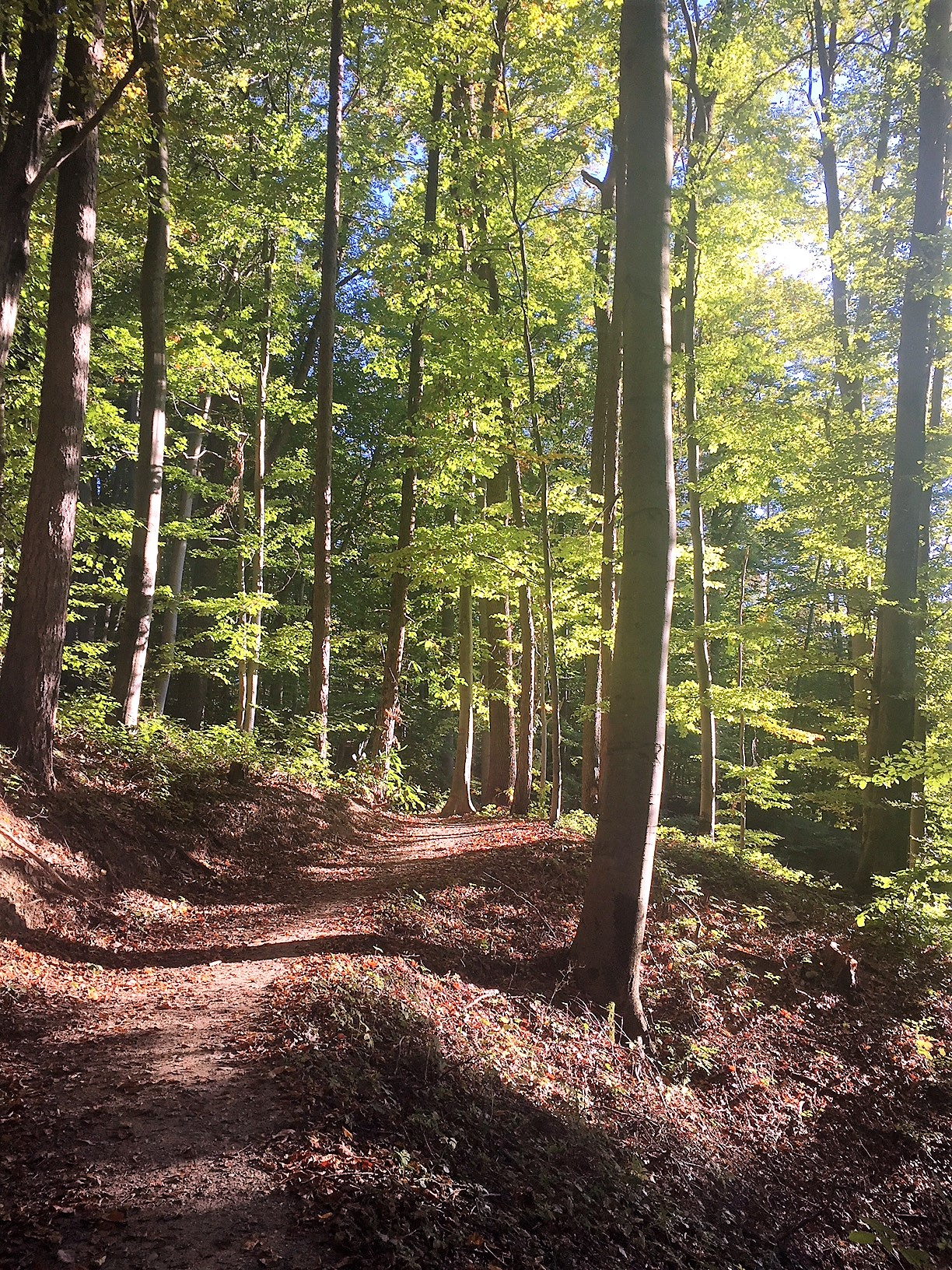 Sebastian RELOADED® adventure trail through the woods surrounding Lassnitzhoehe